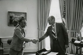 The photo contact sheet, identified as A4736 by the White House Photographic Office (WHPO), is housed at the Gerald R. Ford Presidential Library, a branch of the National Archives and Records Administration (NARA). This file is a 200 dpi photo contact sheet having images from roll of film A4736 of the August 9, 1974 - January 20, 1977 Gerald R. Ford White House Photographic Office Series A0001-A9999 and B0001-B2886 photographs. The date on the photo contact sheet is the date the roll of film was processed, not necessarily the date the photographs were taken. See table below for additional details.